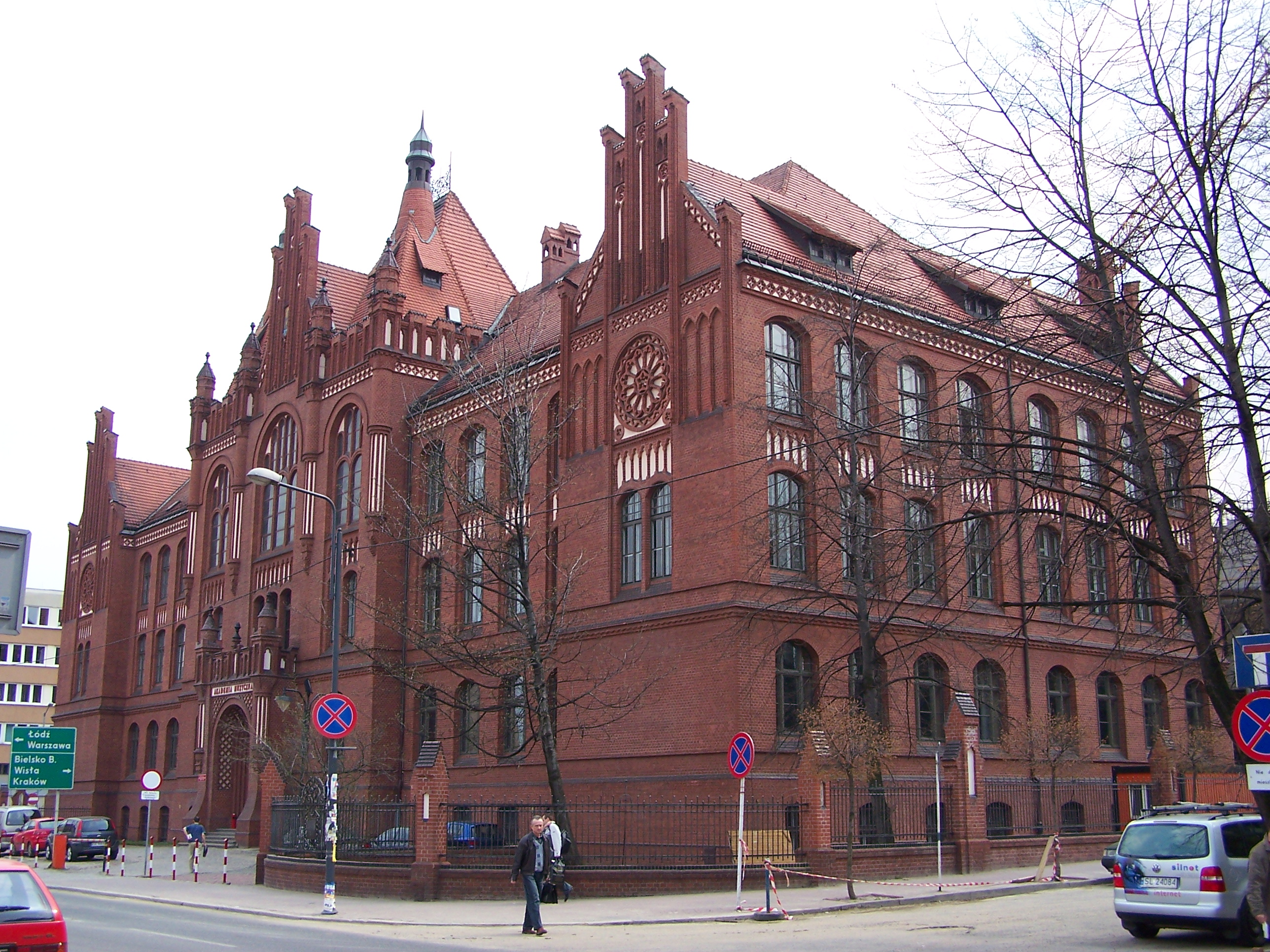 Academy of Music building at 33 Wojewódzka Street in Katowice.